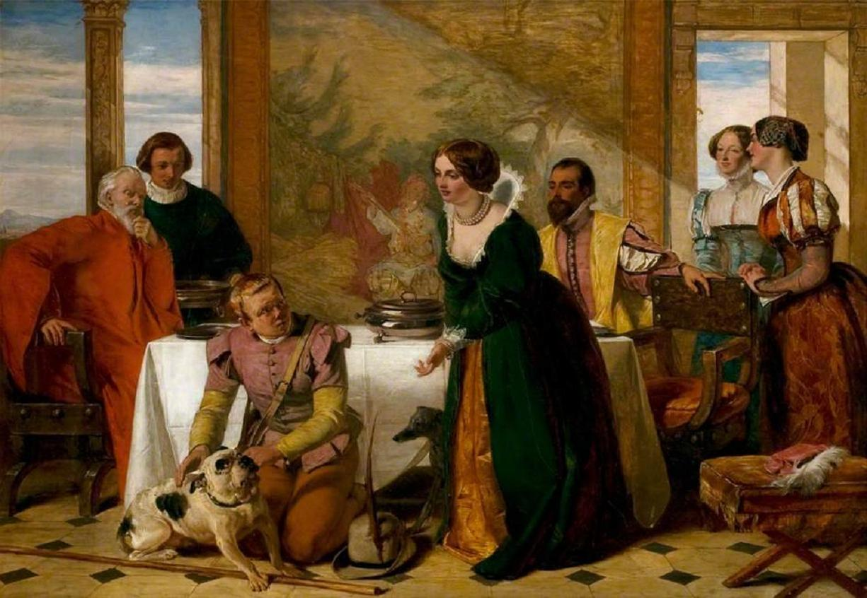 Launce's susbstitute for Proteus' dog in The Two Gentlemen of Verona